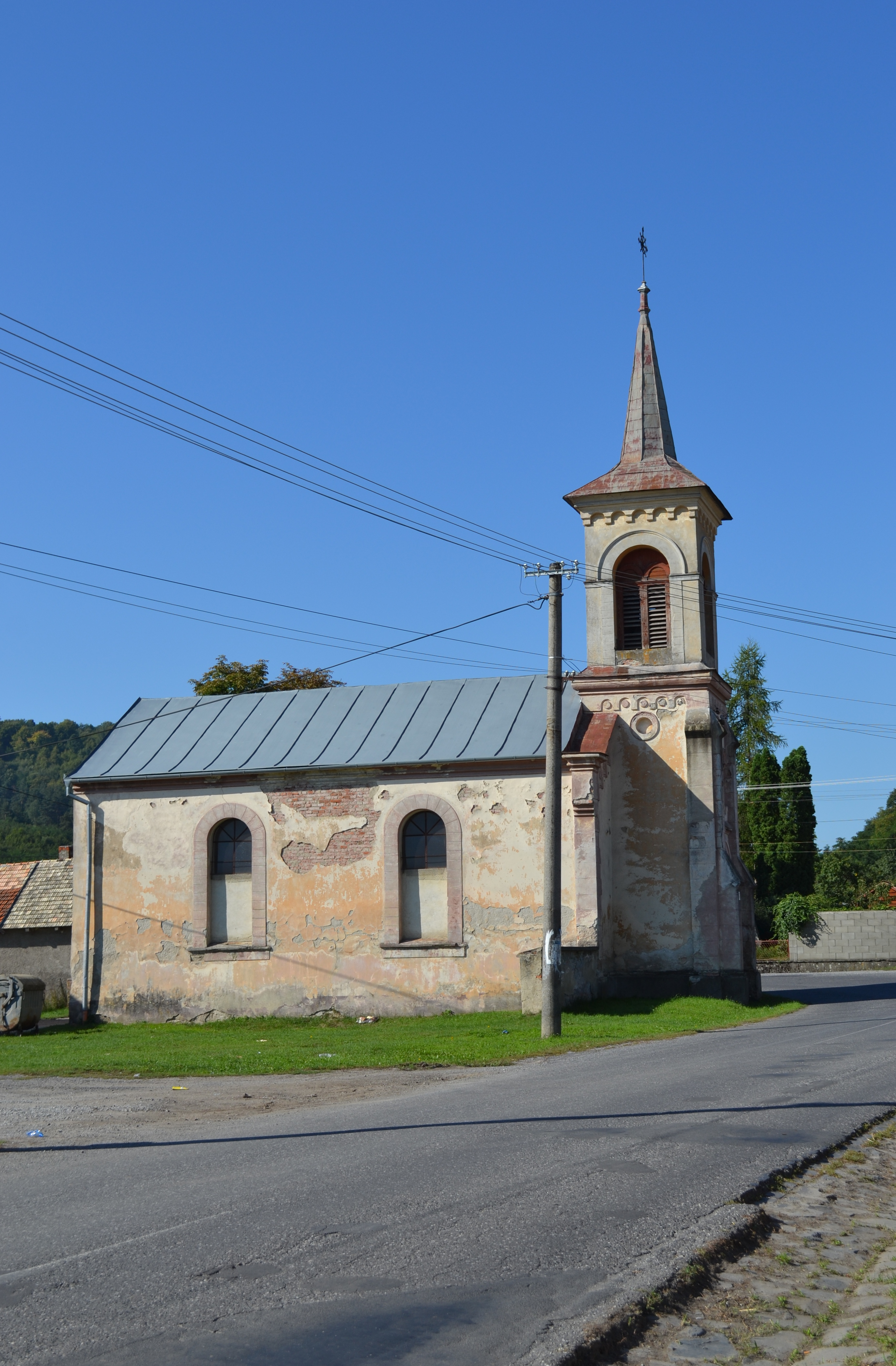 Reformed church in Hodejov